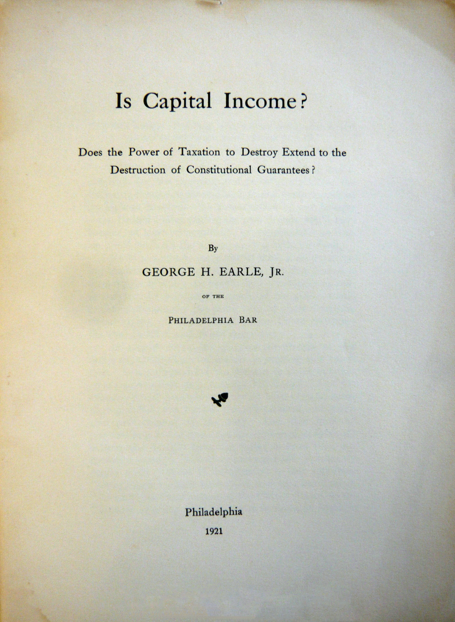 Image of cover of Is Capital Income? (1921) by George H. Earle, Jr.